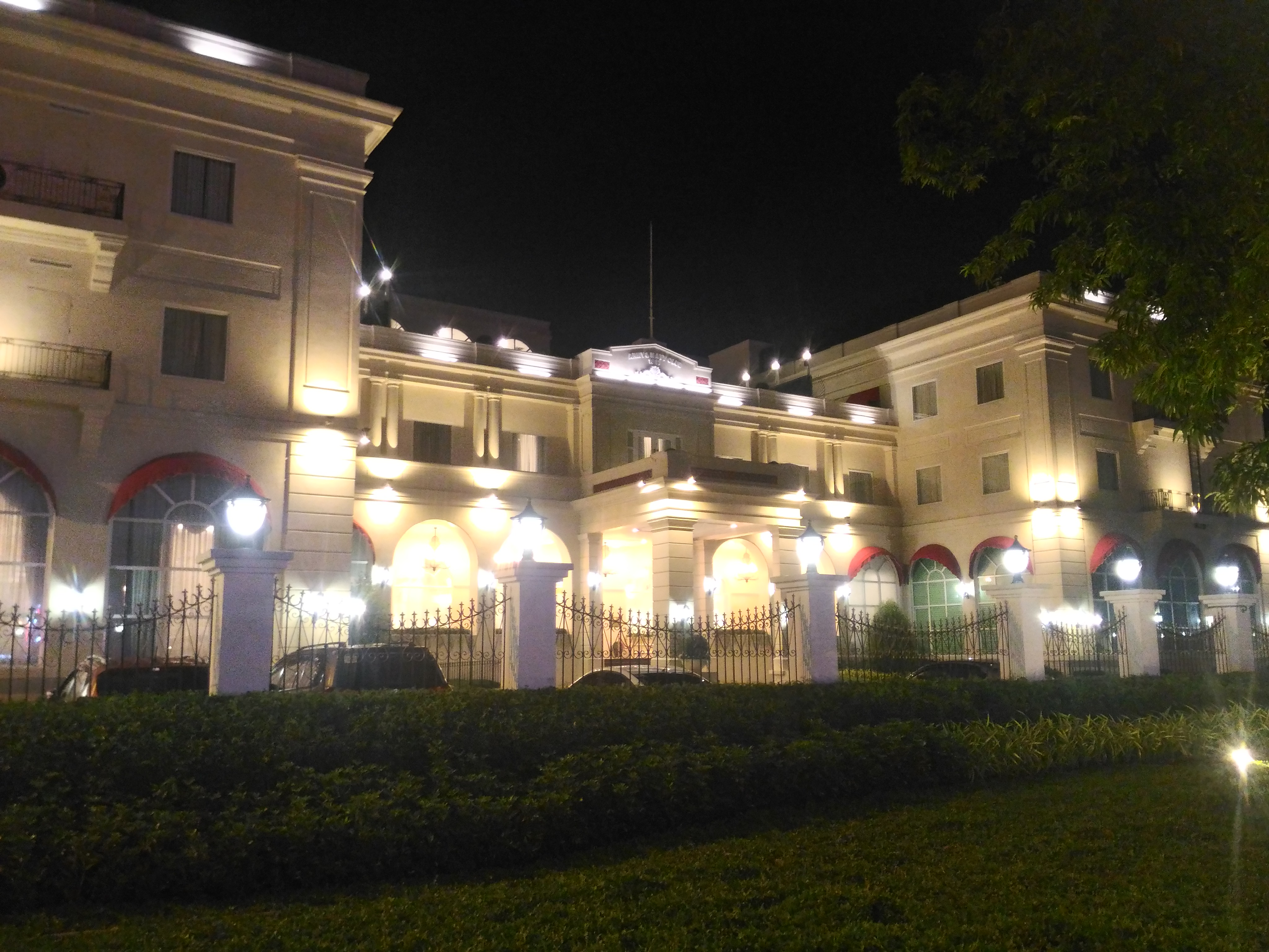 The facade of the Rizal Park Hotel, formerly known as the Army and Navy Club along Katigbak Drive in Manila.